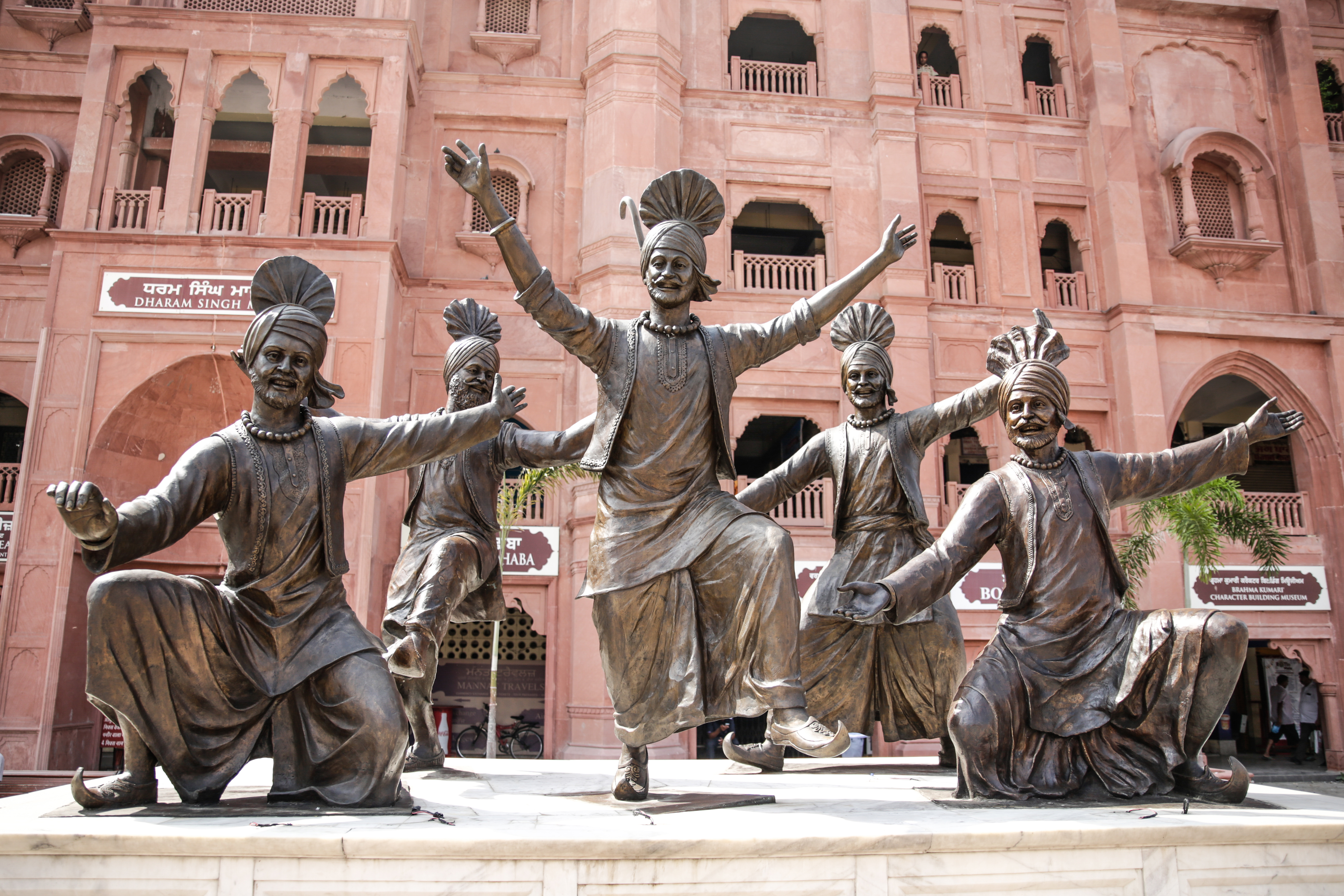 Statue of men performing the Bhangra dance.